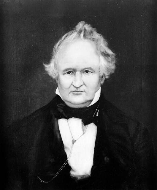 Portrait of Chester Ashley.